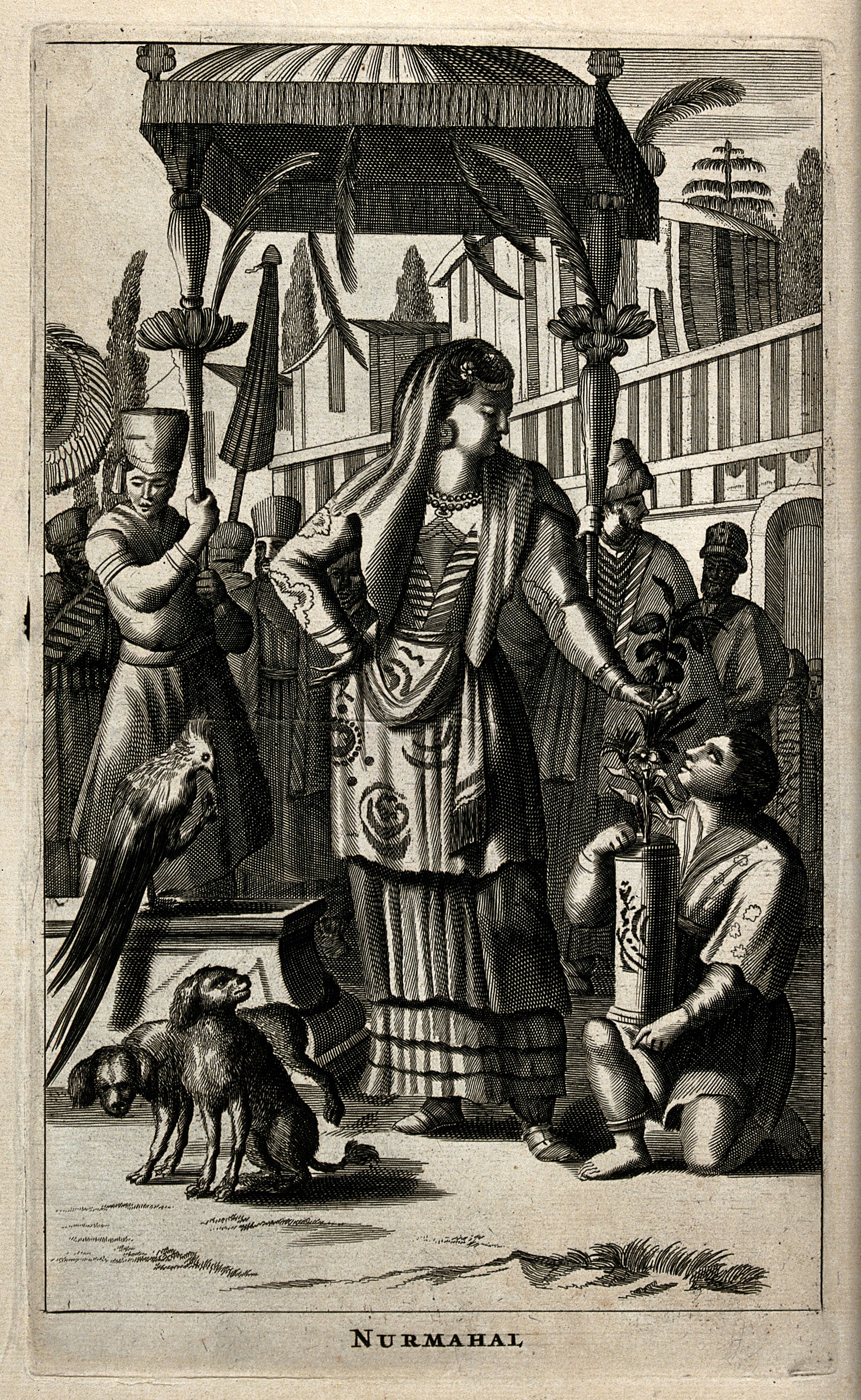 The Empress Nur Jahan, consort of Shah Jahangir of the Mughal Empire, with servants and dogs.